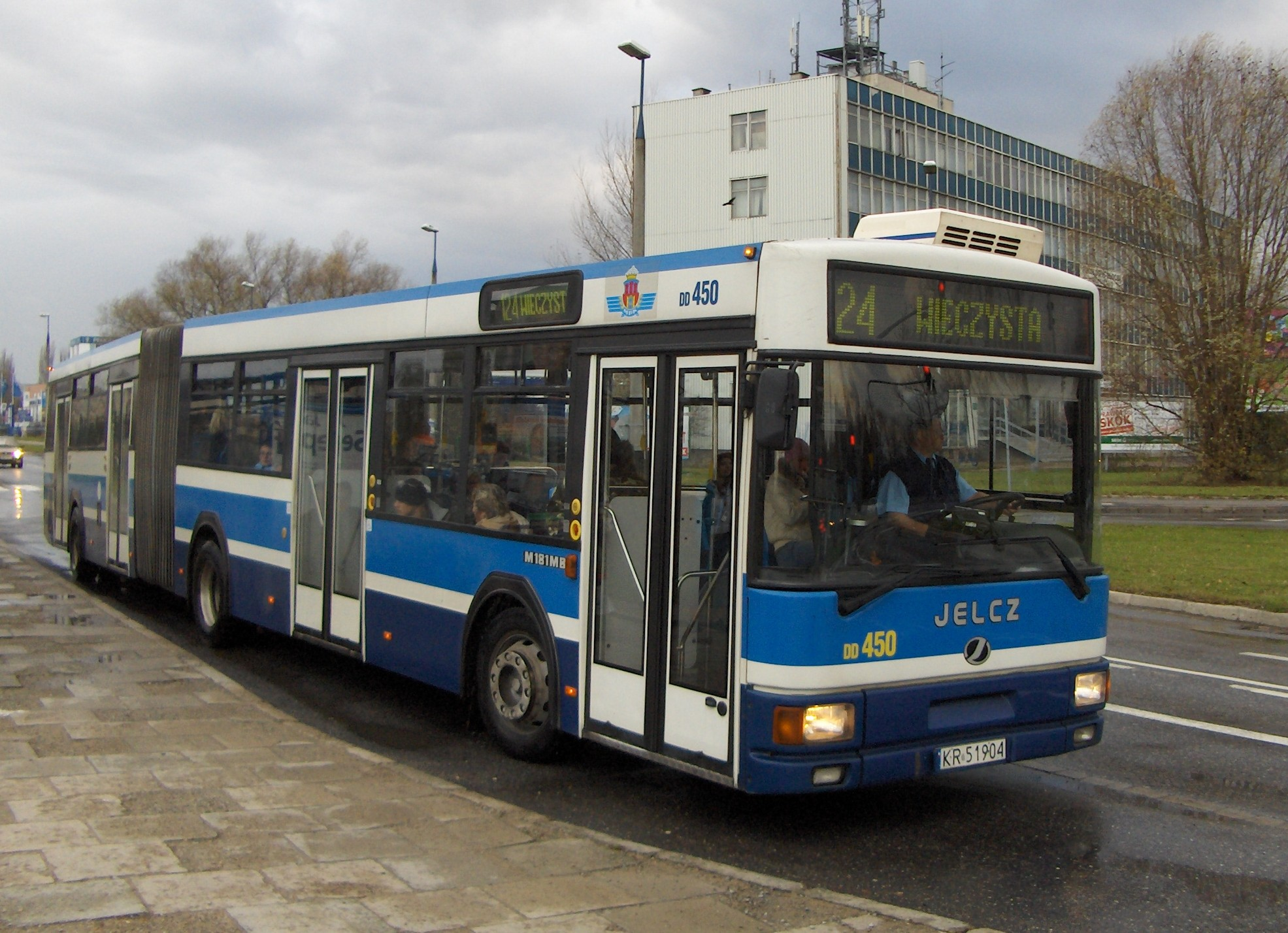 Jelcz M181MB low entry bus (#DD450, reg. KR 51904) in Kraków, Poland. Built 2001, MPK Kraków operator.